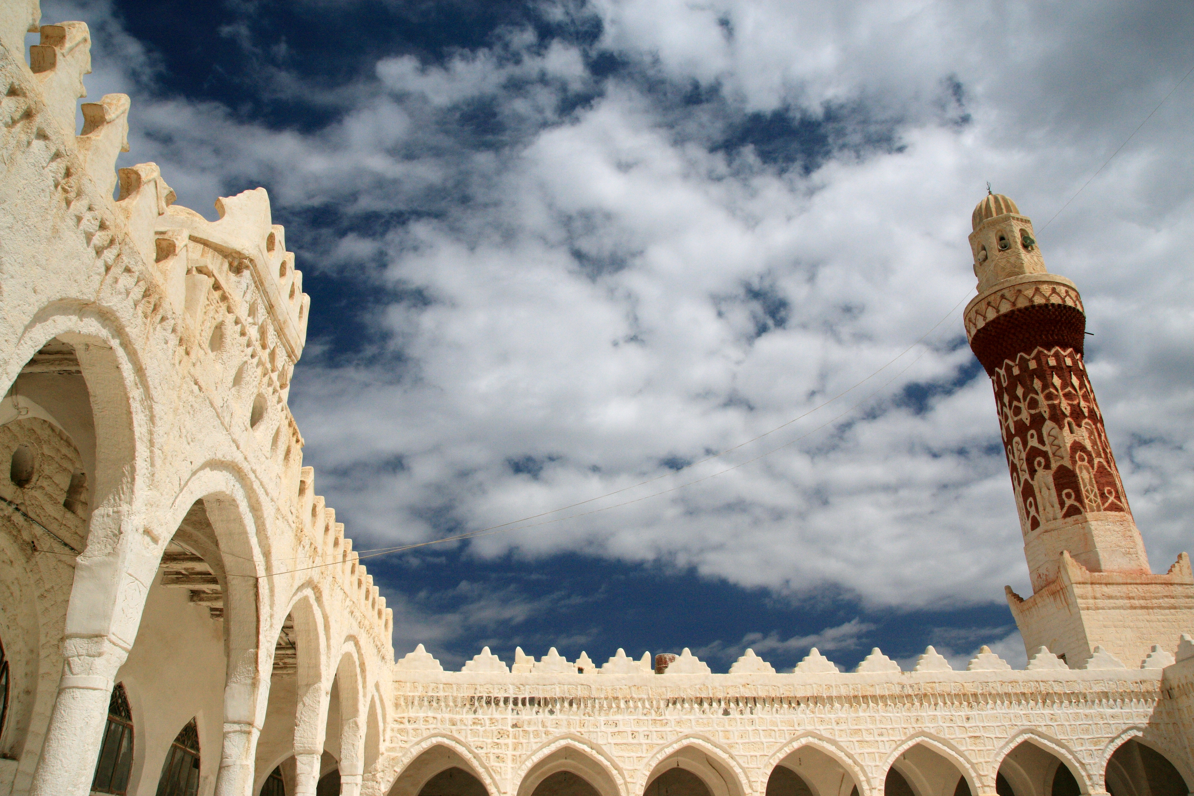 Queen Arwa Mosque in Jibla, Yemen.